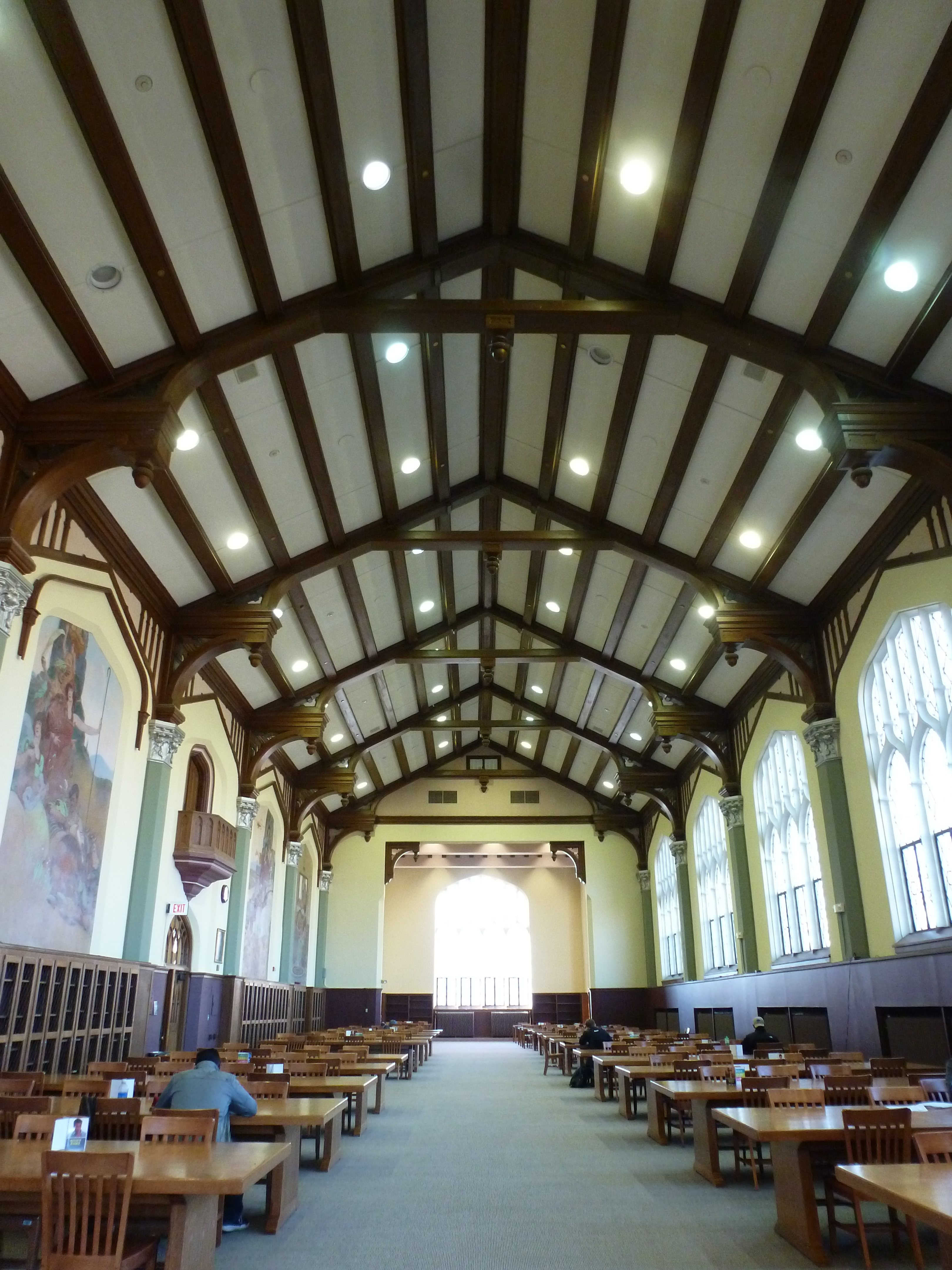 Photo of the Great Room I took on 11-12-2012 at Hale Library in Manhattan, KS